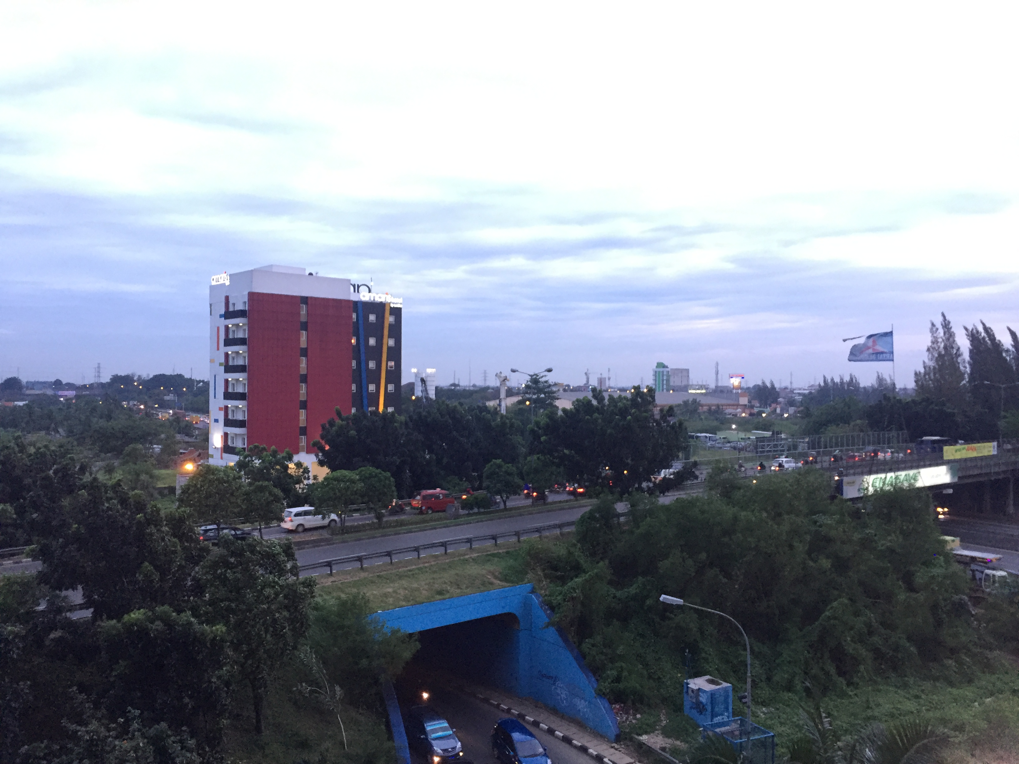 Amaris hotel in Bekasi